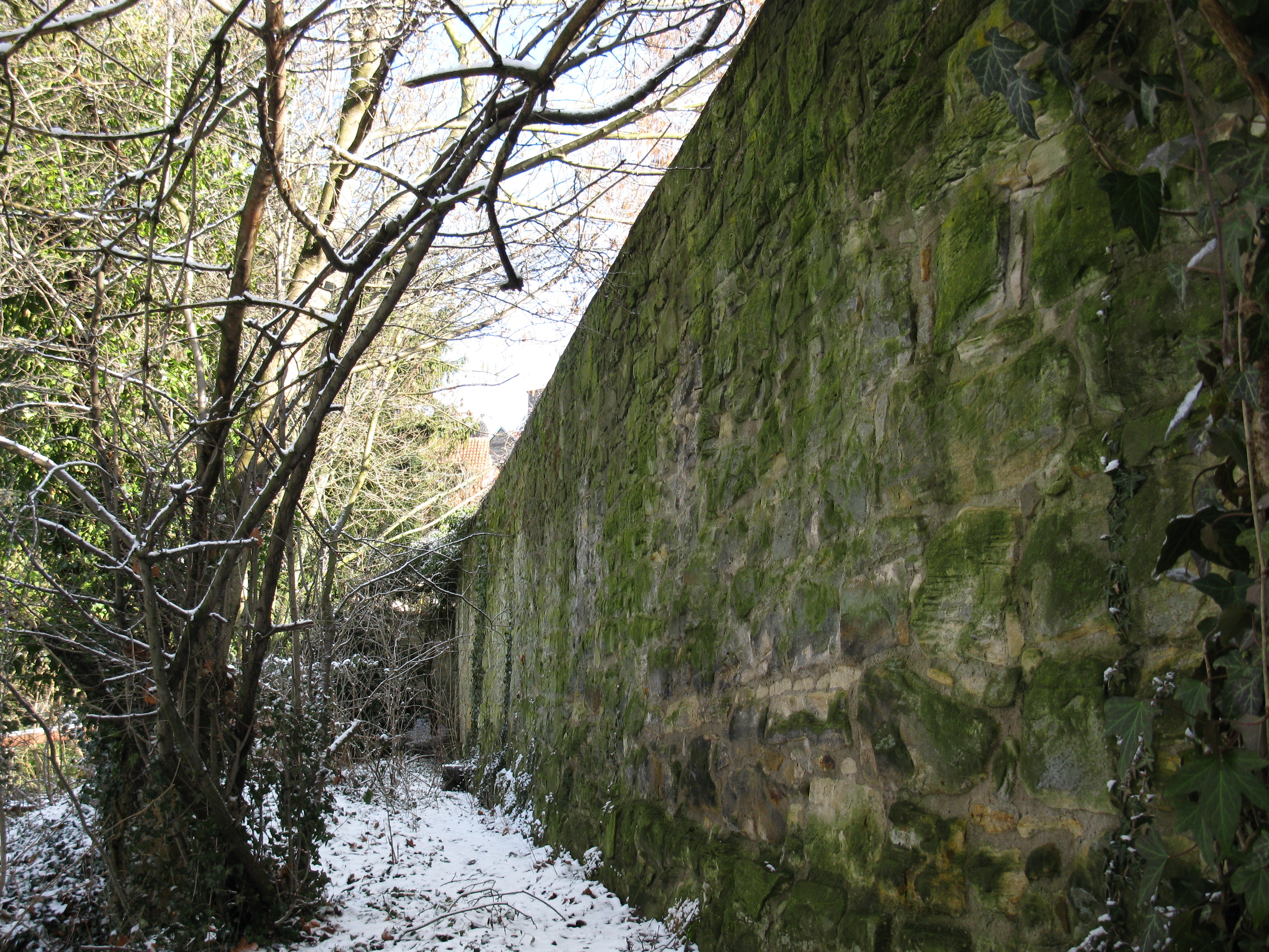 Medieval city wall at Saint Magdalena's Garden, Hildesheim, Germany.